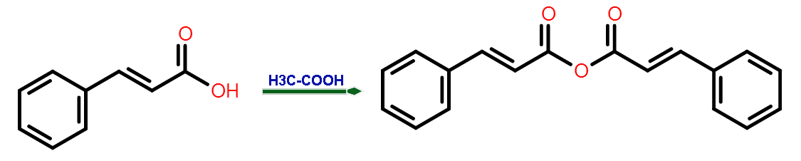 Cinnamic anhydride synthesis